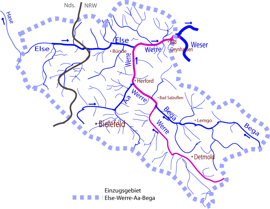 River Werre in Werre-Else-Aa river system.